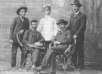 Димитър Влахов